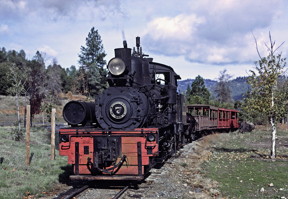 November of 1981, Westside #7 operating on track laid inside the millyard at Tuolumne, CA. Glen Bell (as in Taco Bell) had lost interest in his Westside operation and sold it to another operator who in turn sold it to an outfit called Camp Coast to Coast who later sold off all the equipment. Shay #7 ended up at Roaring Camp in Felton where it remains today.